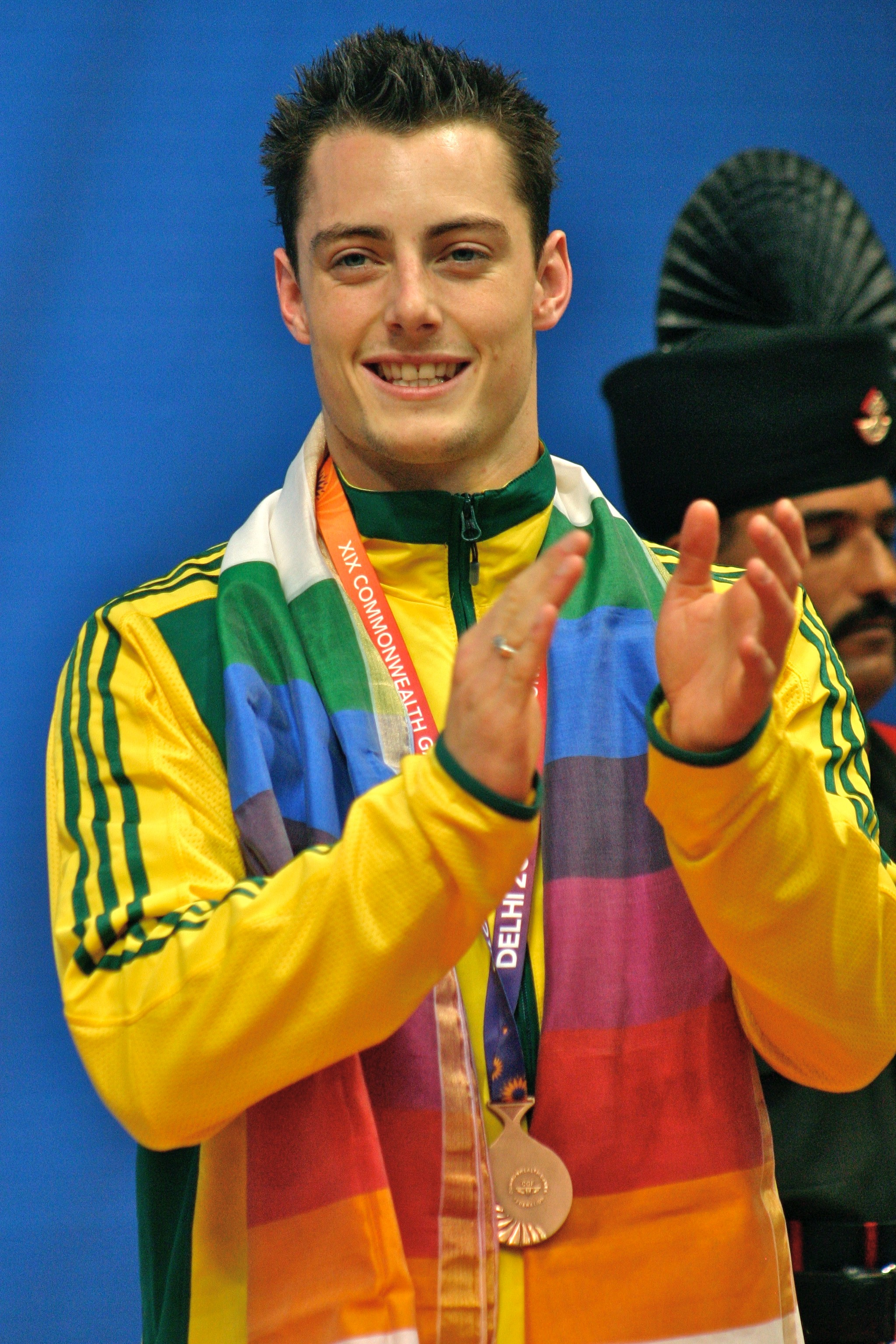 2010 Delhi Commonwealth Games - Bronze Medalist (Scott Robertson)